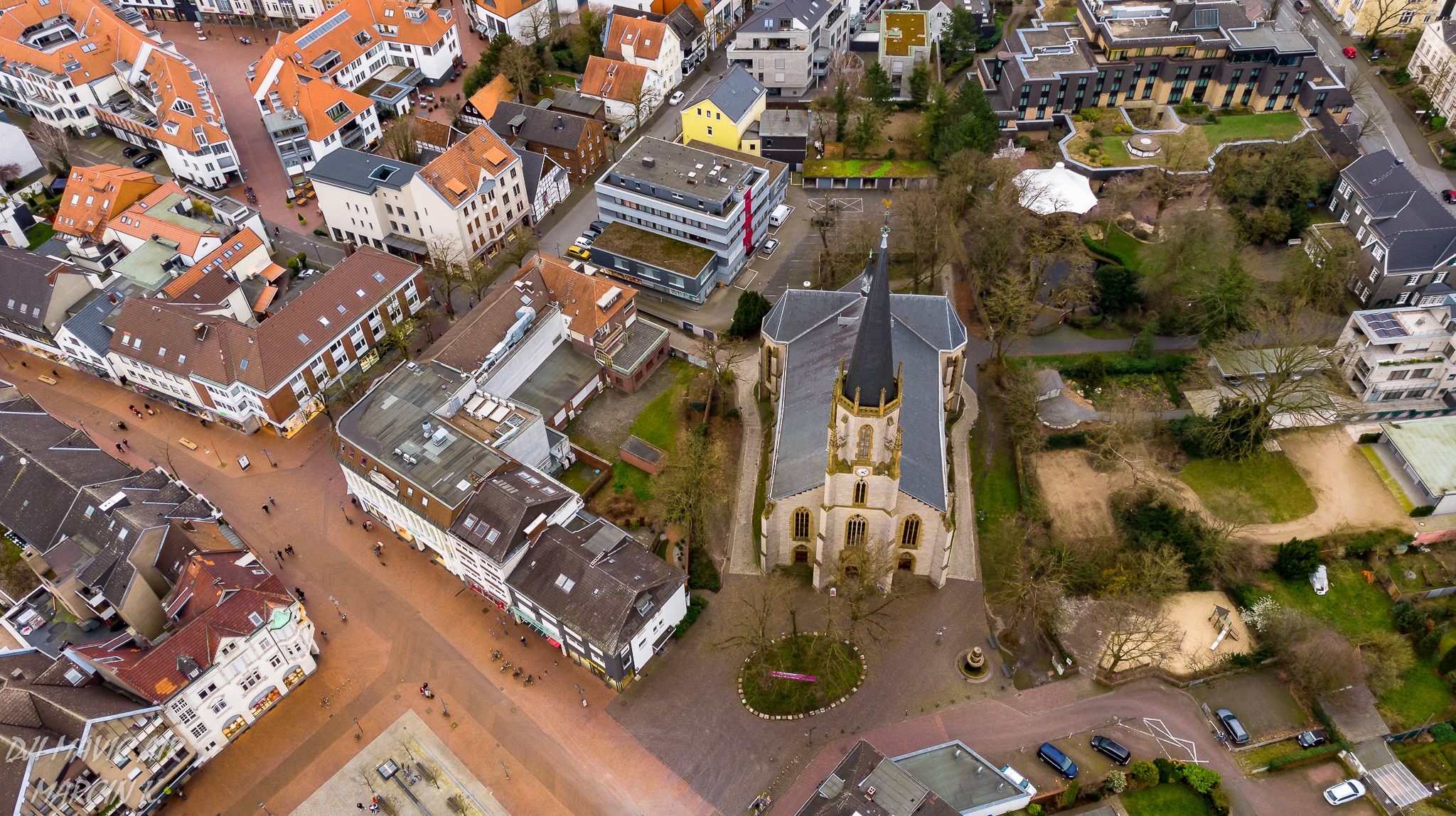 Martin-Luther-Kirche (Gütersloh)